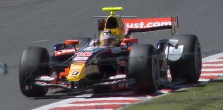 Yelmer Buurman driving for Arden International at the Circuit de Nevers Magny-Cours round of the 2008 GP2 Series season.